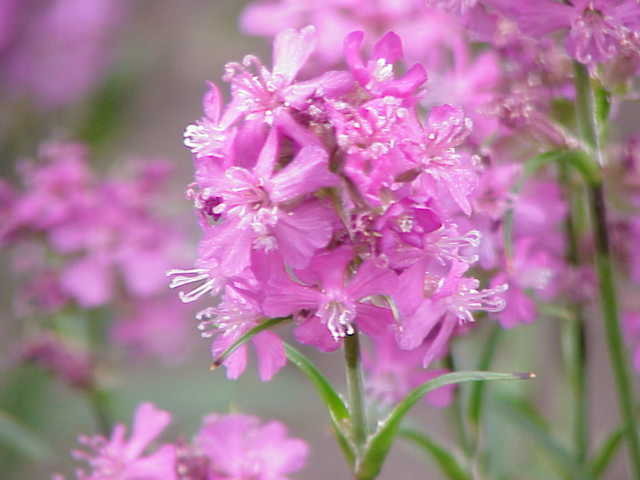 Species: Silene viscaria (NOT! Lychnis alpina) Family: Caryophyllaceae Image No. 1